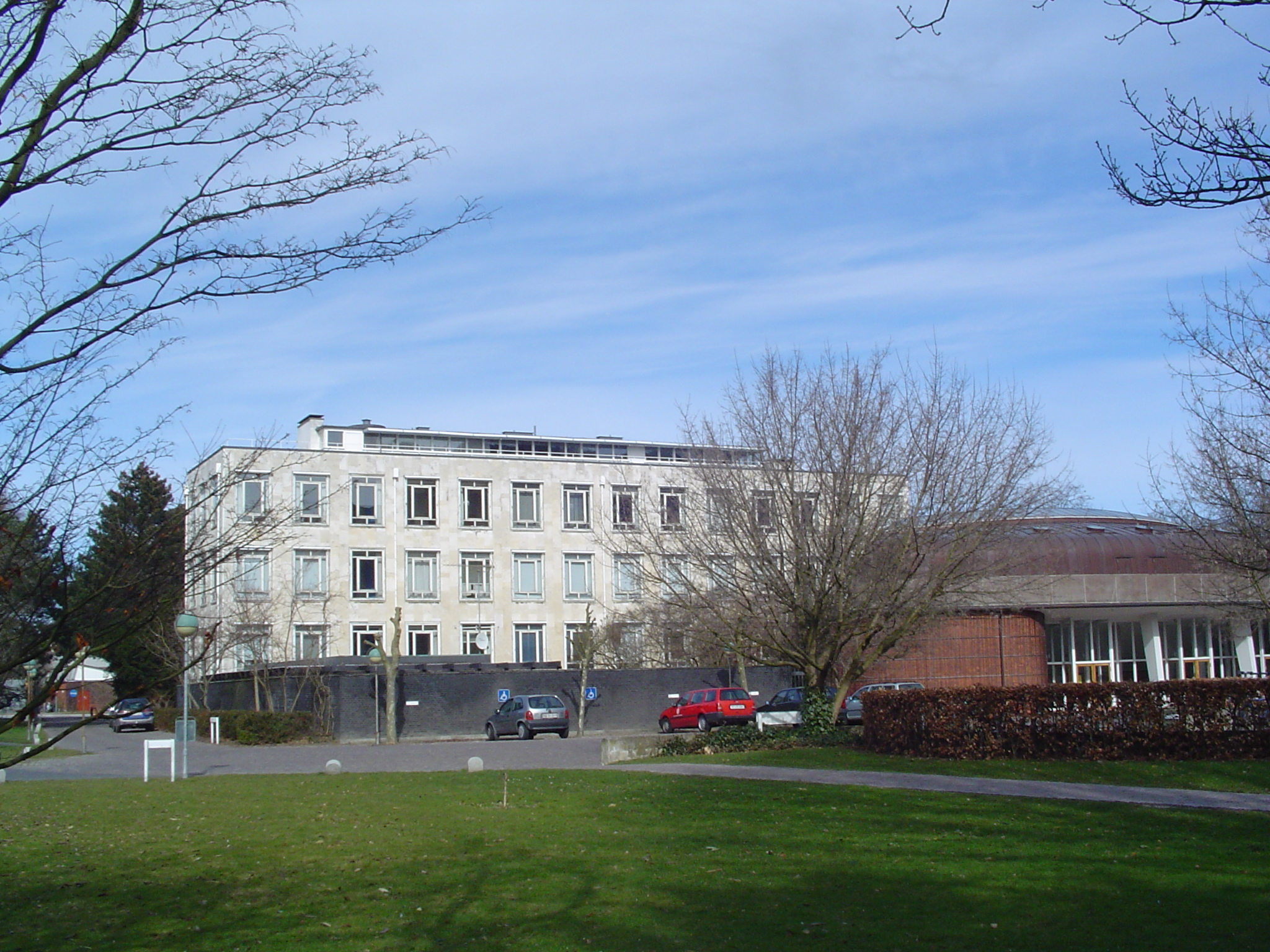 University of Copenhagen Department of Computer Science (DIKU). Taken by me on 26/3-2005. Not a good view of the building, but there are trees in front of all the good angles :(.